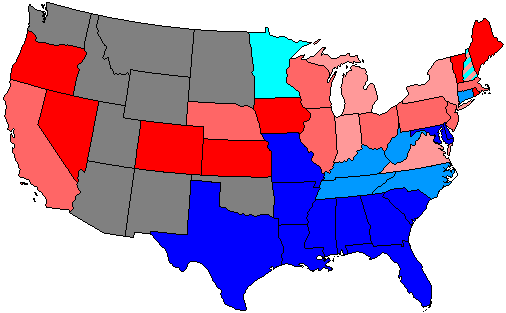 Summary of party control of U.S. house seats in the 50th United States Congress following election. Stripes indicate a tie between two or more parties. Legend: 80.1-100% Democratic seat majority 60.1-80% Democratic seat majority 60% or less Democratic seat plurality 60% or less Republican seat plurality 60.1-80% Republican seat majority 80.1-100% Republican seat majority